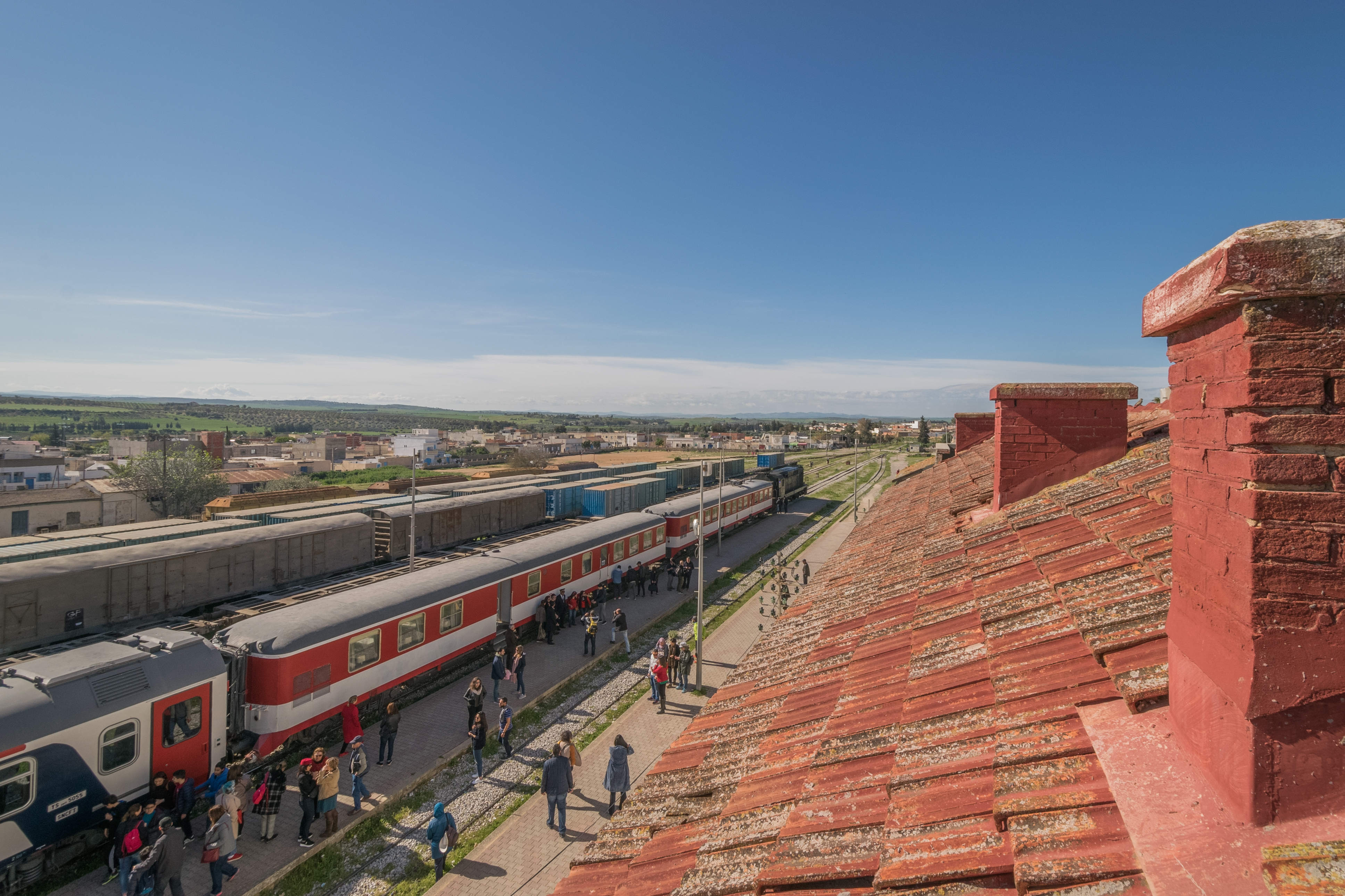 This is an image with the theme "Africa on the Move or Transport" from: Tunisia